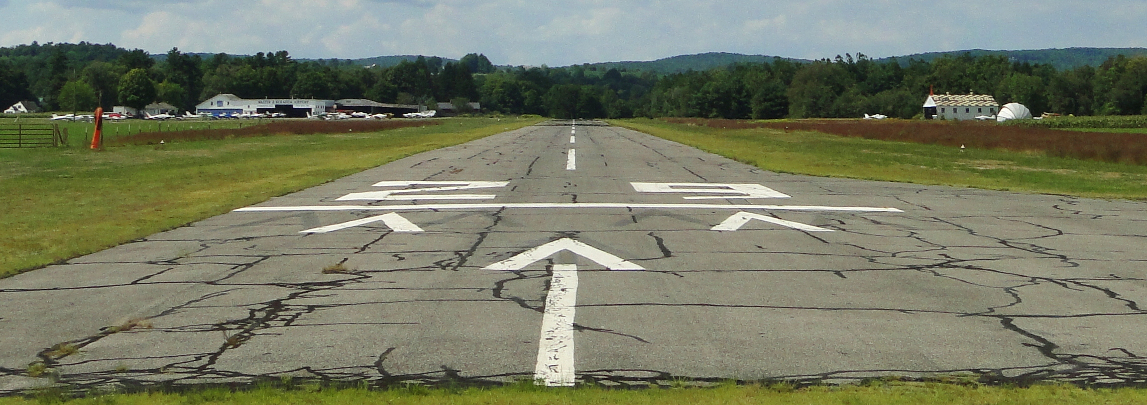 Runway view of Walter J. Koladza Airport in Great Barrington, MA